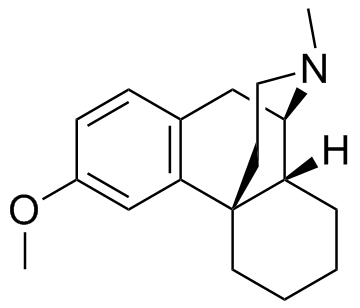 Chemical structure of levomethorphan